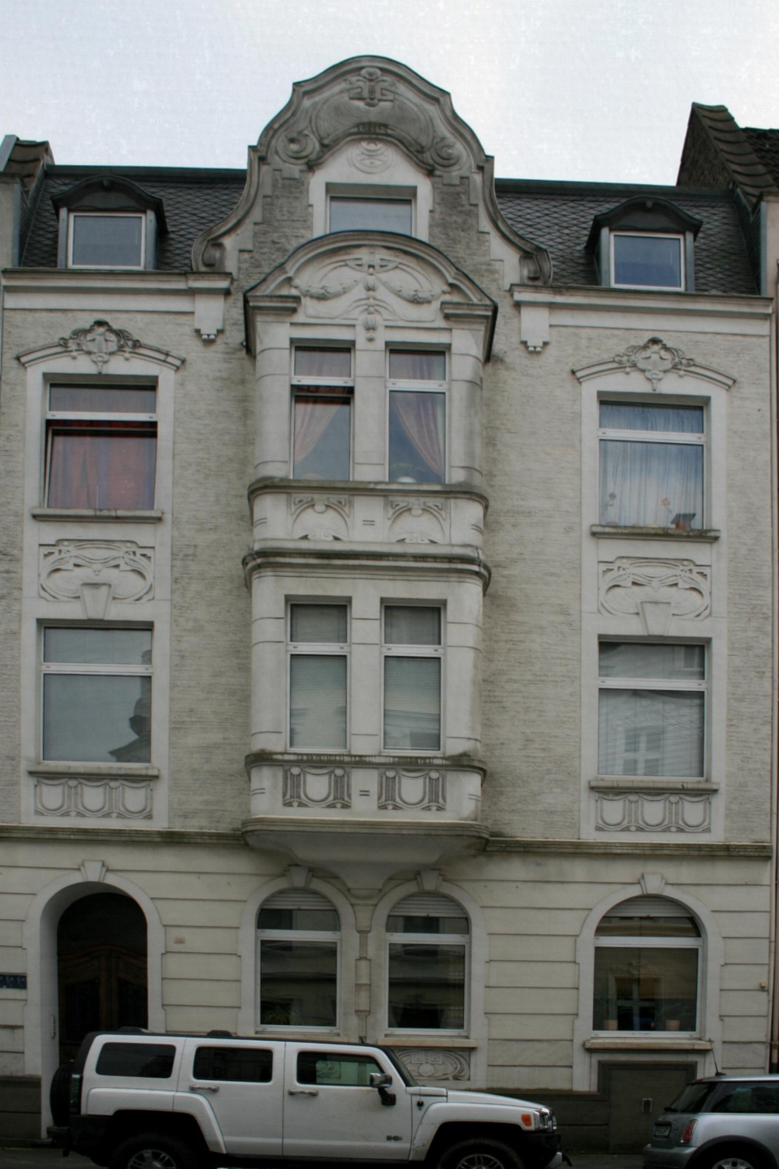 Cultural heritage monument No. H 001 in Mönchengladbach